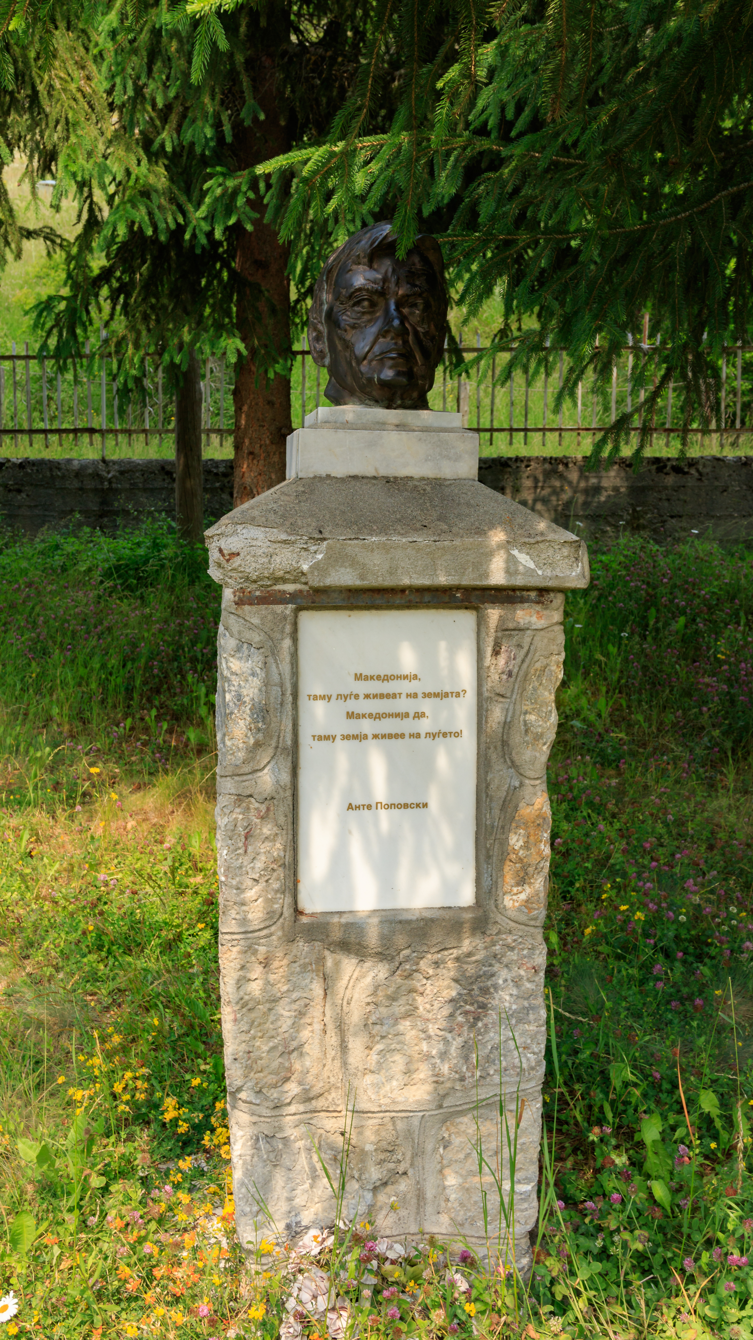 Bust of Ante Popovski in the village Lazaropole